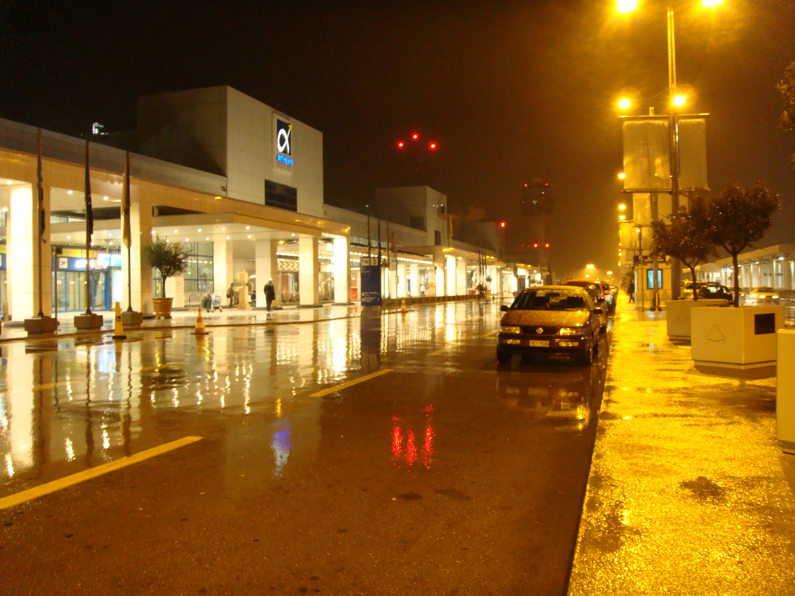 Athens International Airport "Elefthérios Venizélos" main terminal building, seen at night.